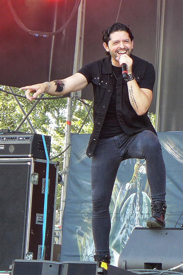 Ronnie Romero (Black Lords performance) 2017